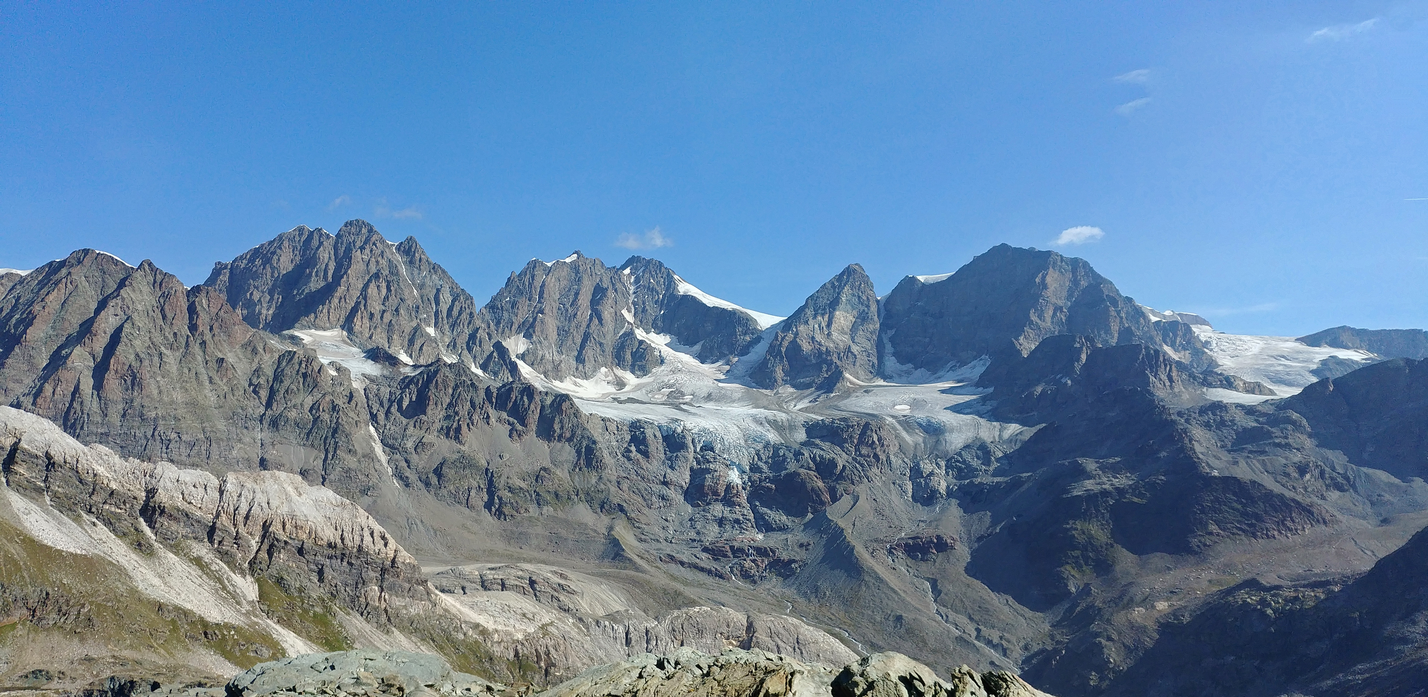 The italian side of the Bernina Range seen from Sasso Nero. From left to right: Piz Sella, Piz Roseg, Piz Scerscen, Piz Bernina, Cresta Guzza, Piz Argient. In the center the Vedretta di Scerscen Superiore glacier.